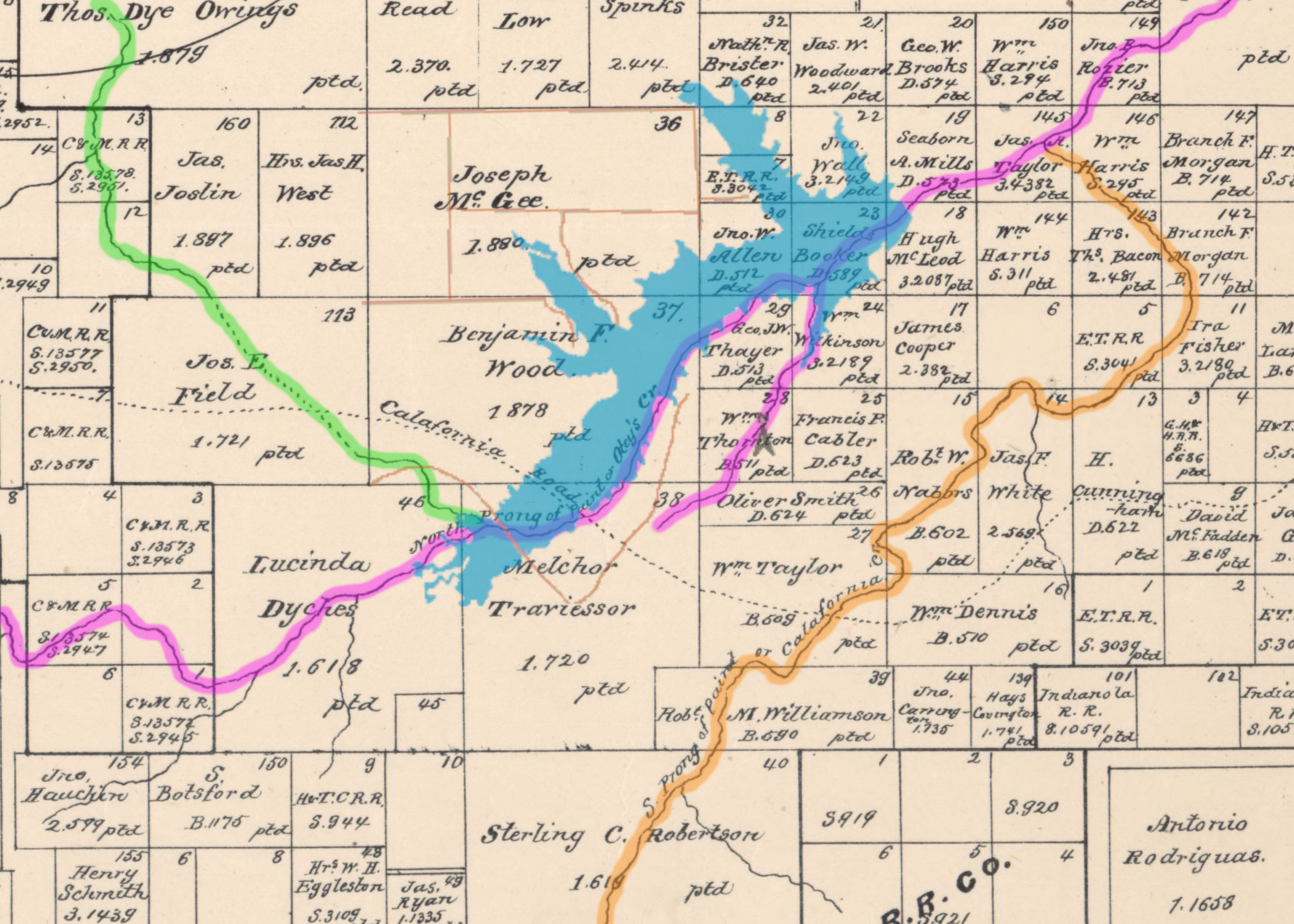 1879 Haskell County survey with future Lake Stamford (blue) added, and 1879 courses of Paint Creek (purple), Mule Creek (green), and California Creek (orange) colored. Background map is sourced from the Library of Congress [1]